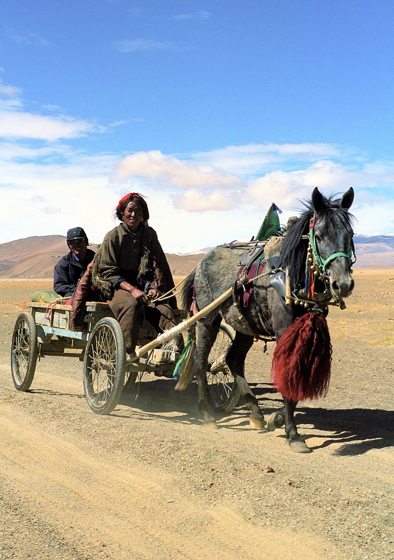 Dawa proud on his coach with horse. tibet